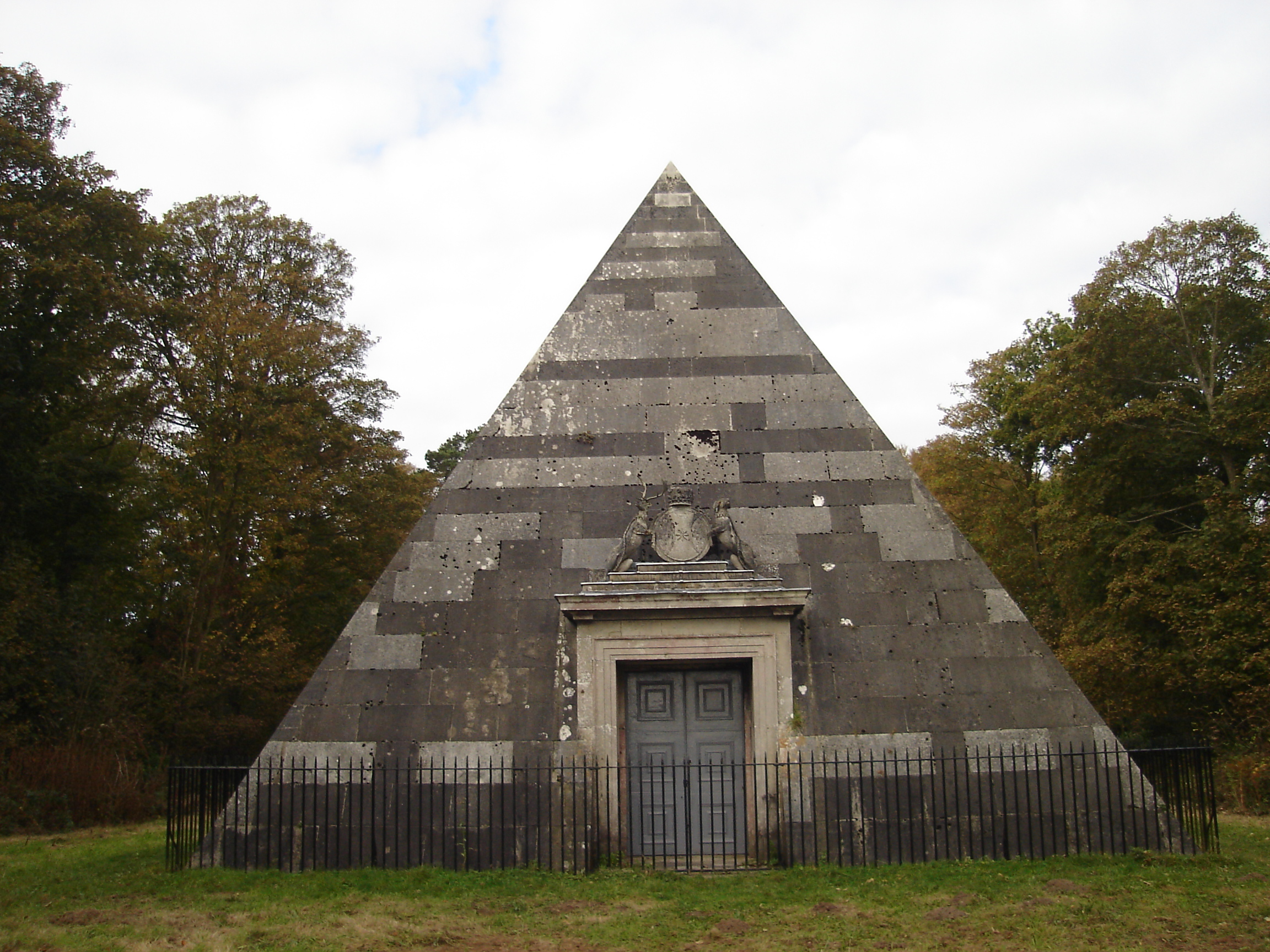 The pyramidal shaped mausoleum is located in the park of Blickling Hall. Completed in 1797 and modelled on the Roman pyramidal tomb of Cestius. The structure was designed by Joseph Bonomi under the instructions of William Assheton Harbord and Lord Buckinghamshire's daughter Caroline. Lord Buckinghamshire is buried here with his two countesses.